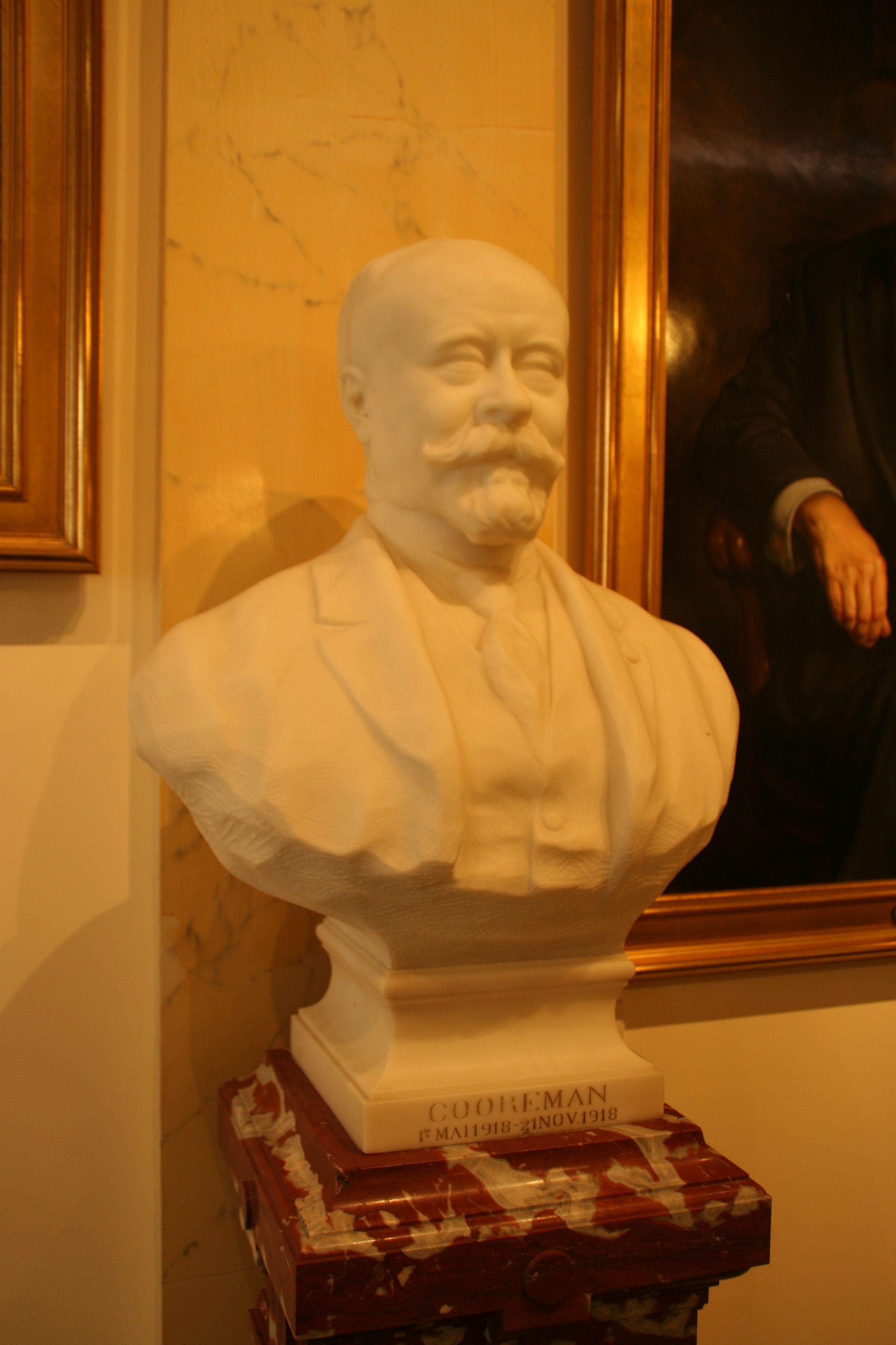 Statue of Gérard Cooreman in the Palais de la Nation in Brussels, Belgium.